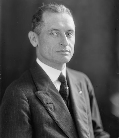 William Henry Hill, Congressman from New York